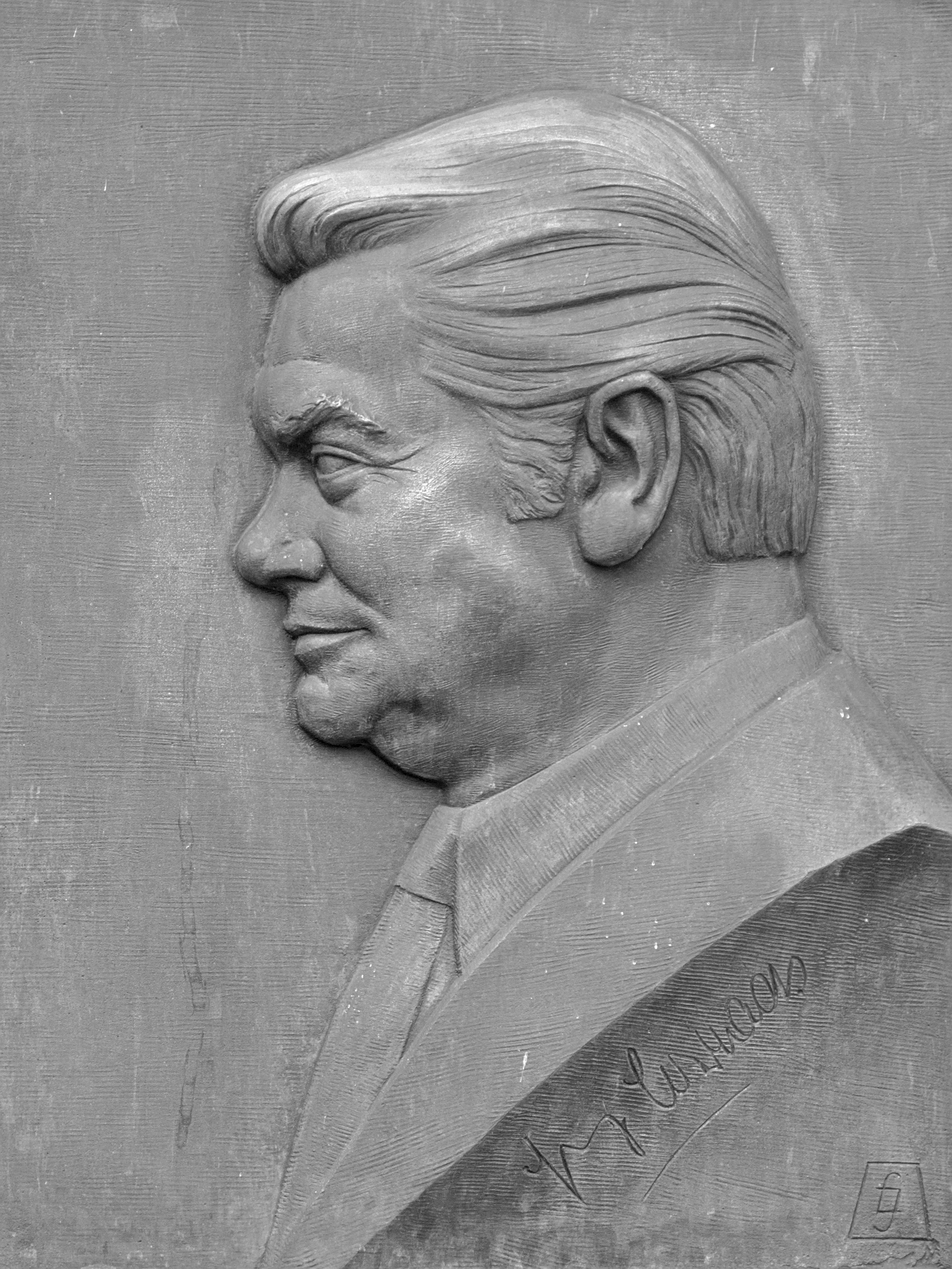 Memorial for Austrian entertainer Heinz Conrads in Vienna's district of Penzing.